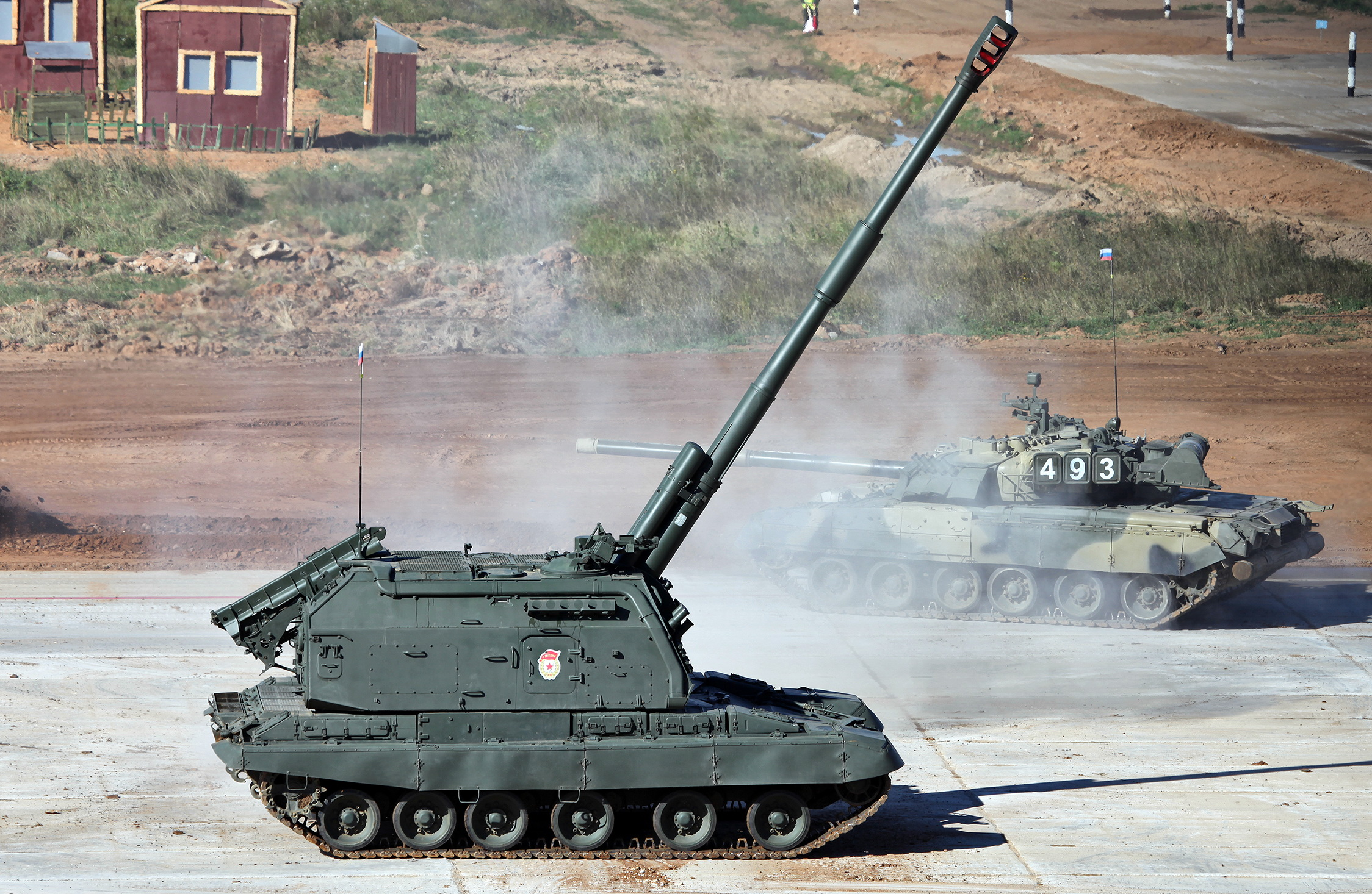 Msta-S SPG